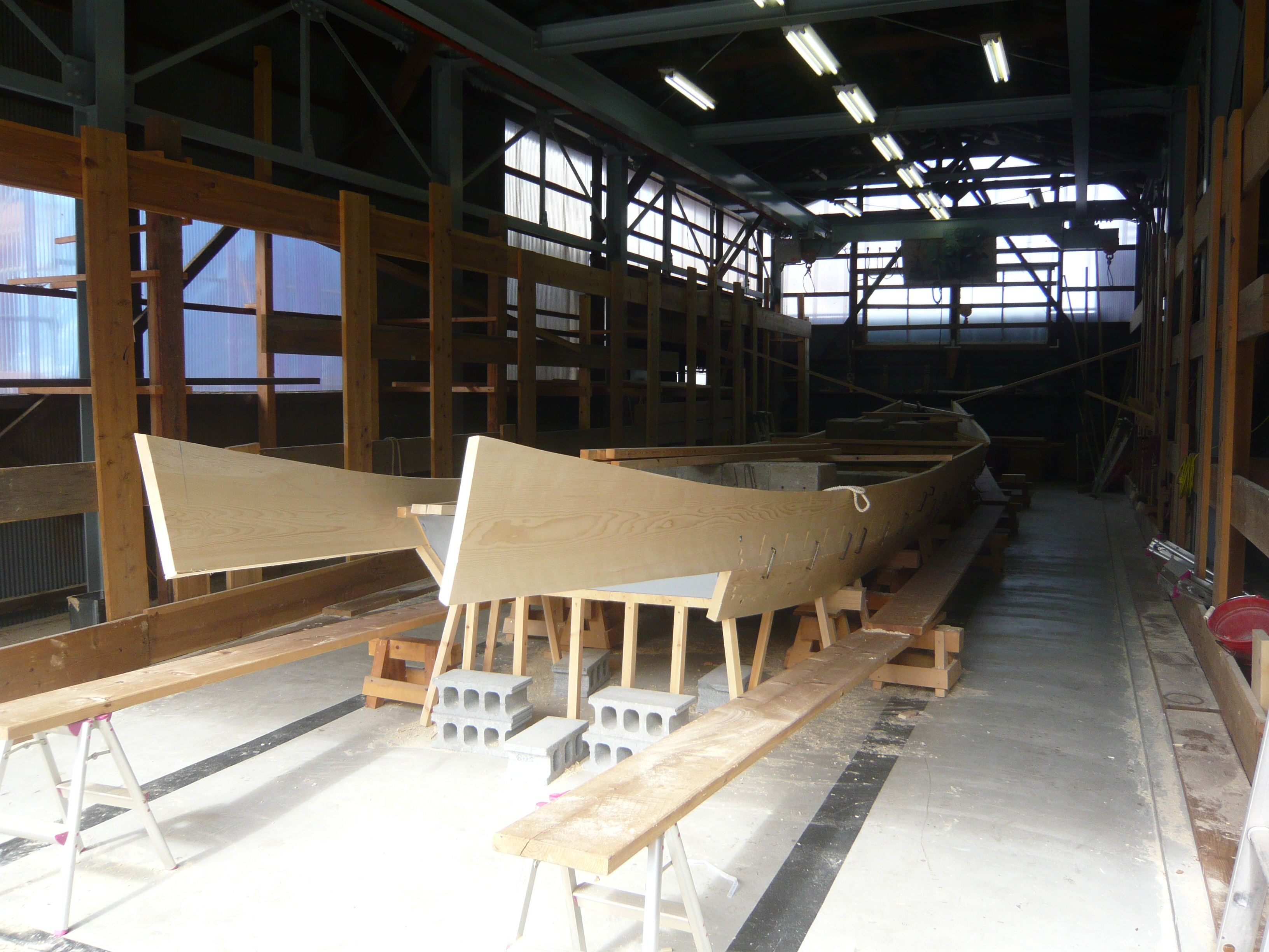 Gifu City Spectarors Boat Shipyard of Cormorant Fishing（鵜飼観覧船造船所）鵜飼観覧船,Gifu,Gifu,Japan（岐阜県岐阜市）で撮影。